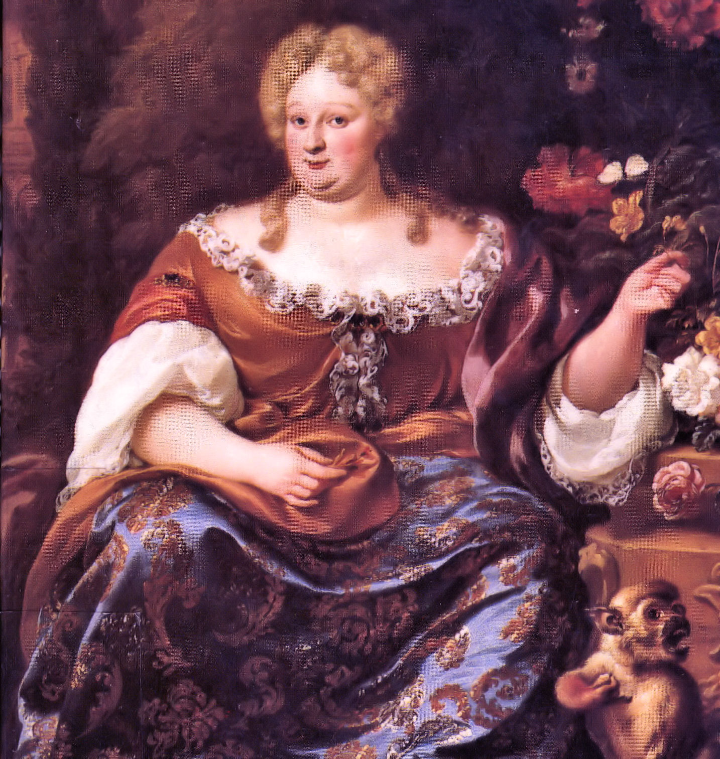 Portrait of Elisabeth Charlotte of the Palatinate (1652-1722)